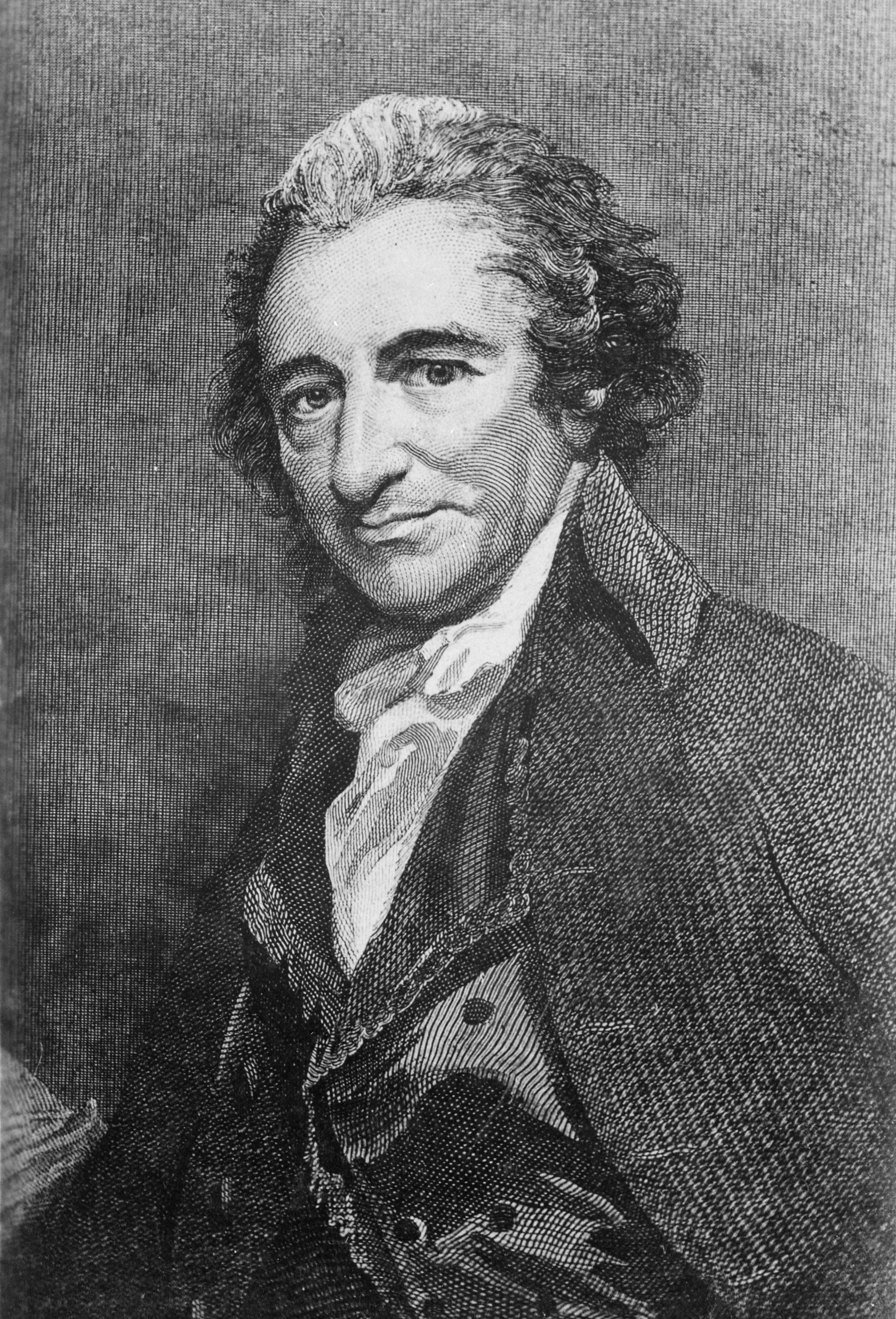 Thomas Paine